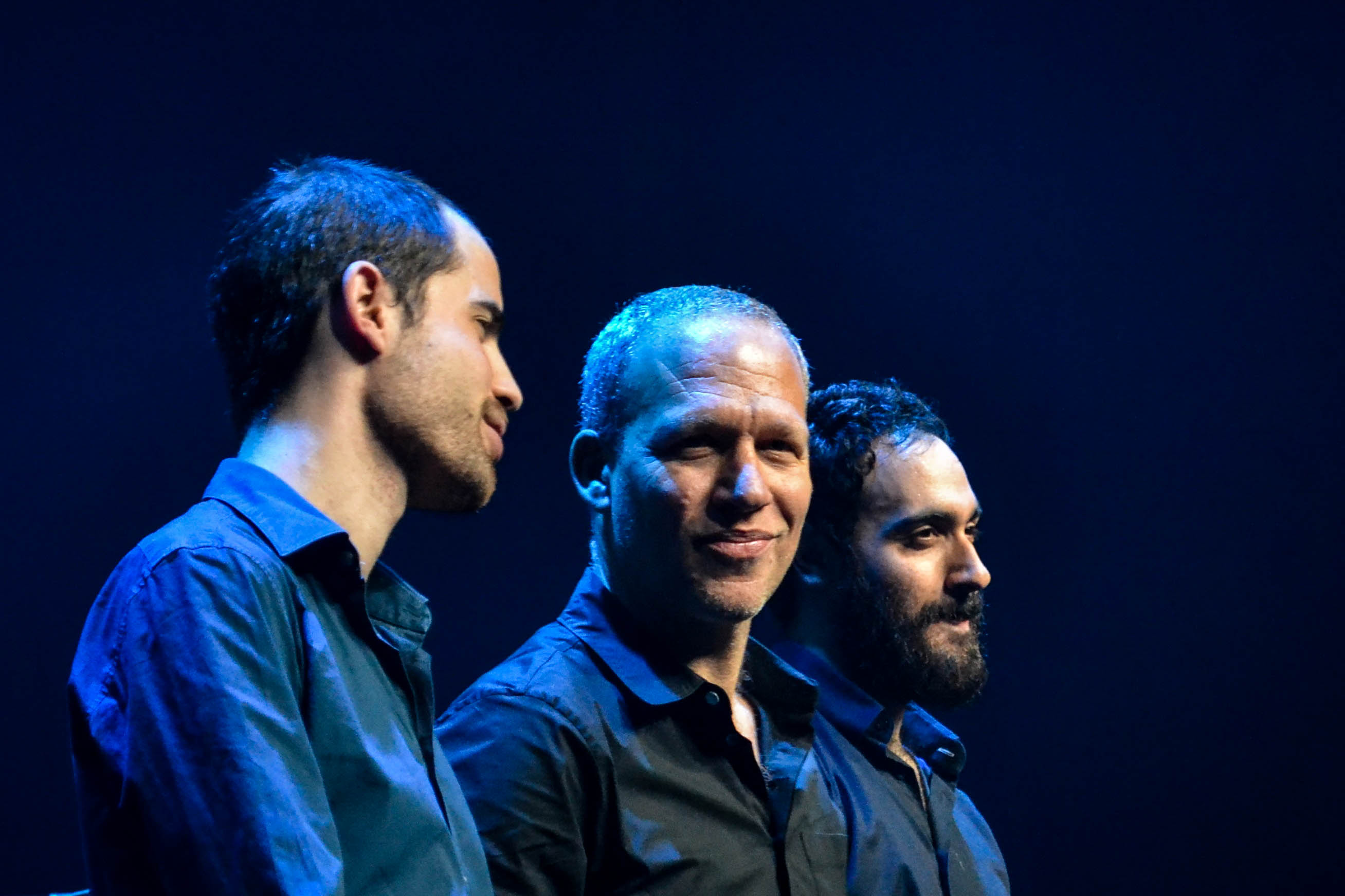 Avishai Cohen Trio performing in Umea, Sweden in 2014.